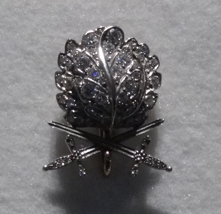 Helmut Lent's version of the Oak Leaves, Swords and Diamonds of the Knight's Cross of the Iron Cross on display at the Bundeswehr Military History Museum. on display for picture taking at the Bundeswehr Military History Museum